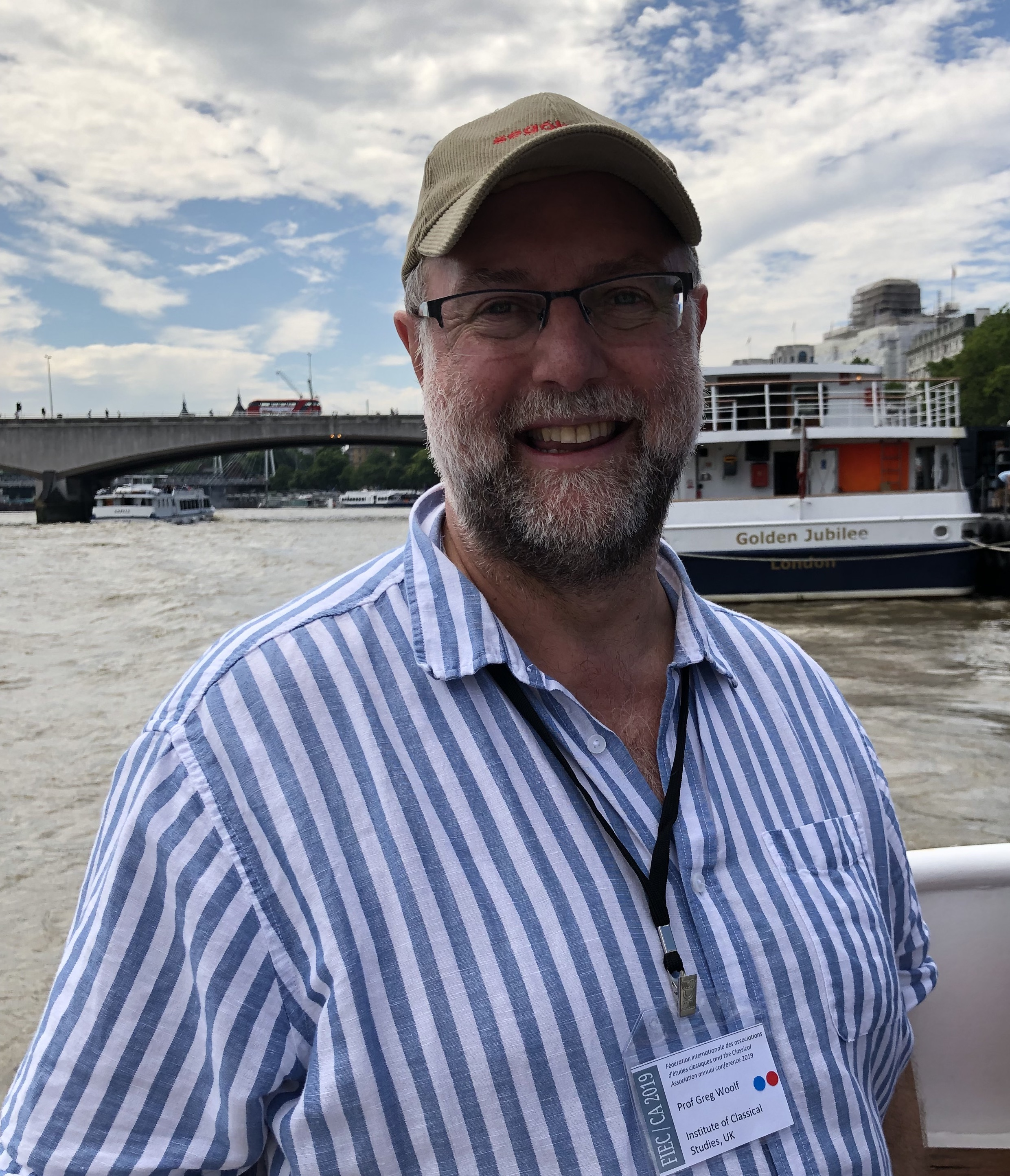 Photograph of Professor Greg Woolf